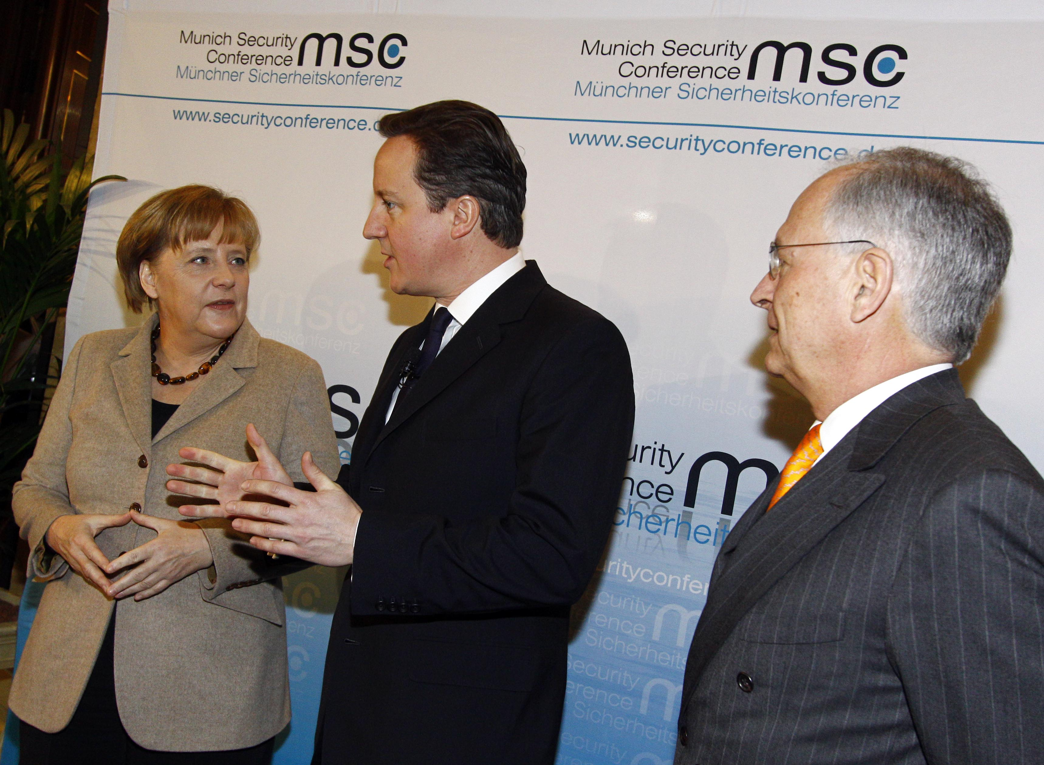 47th Munich Security Conference 2011: Dr. Angela Merkel (le), Federal Chancellor, Germany, David Cameron (mi), Prime Minister, United Kingdom of Great Britain and Northern Ireland, and Wolfgang Ischinger (ri), Chairman, Munich Security Conference